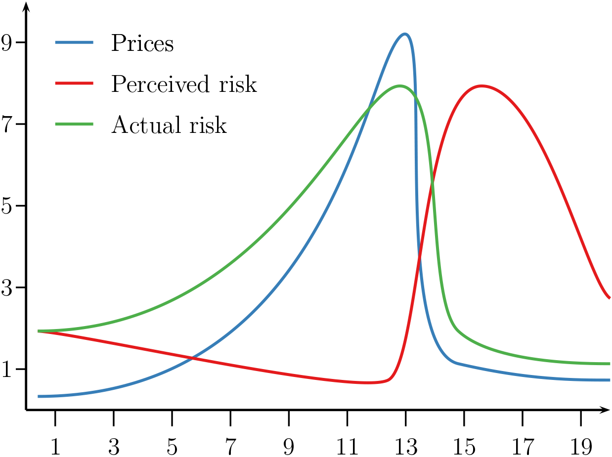 Shows a price bubble, as well as actual and perceived risk, as examples of endogenous risk.